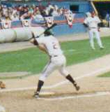 Major League Baseball third baseman Jim Thome of the Cleveland Indians at bat during a September 25, 1993 home game against the Milwaukee Brewers at Cleveland Municipal Stadium.